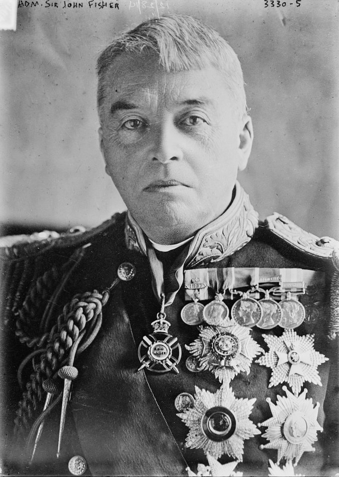 Photograph shows Admiral of the Fleet John Arbuthnot "Jacky" Fisher, 1st Baron Fisher of Kilverstone (1841-1920) who served in the British Royal Navy. (Source: Flickr Commons project, 2012) Admiral Sir John Fisher